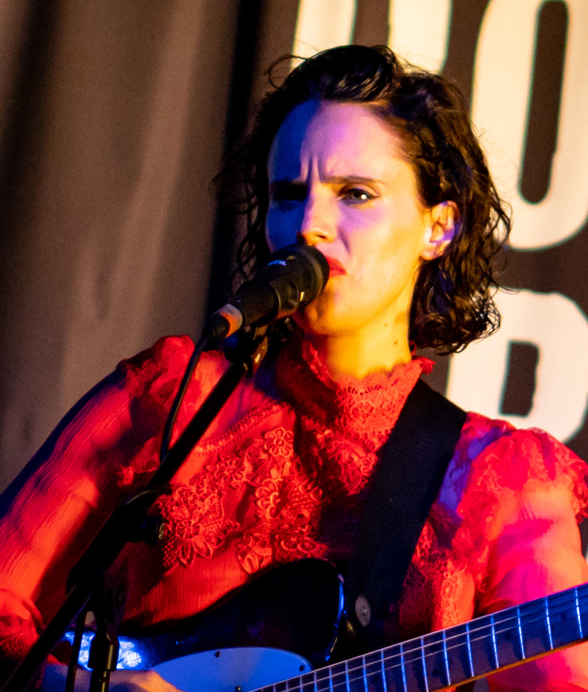 ACalviRoughT050918-15